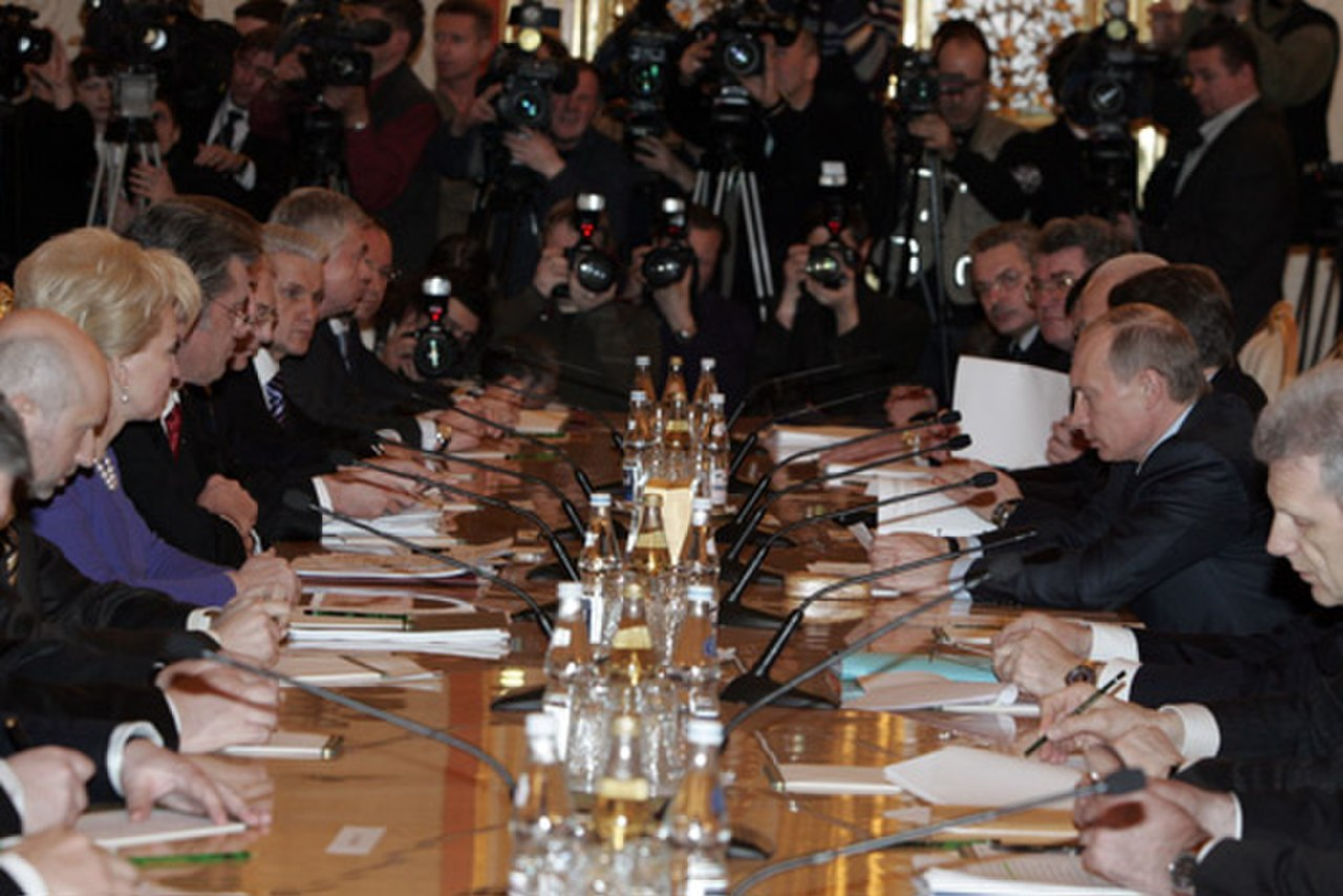 THE KREMLIN, MOSCOW. At the meeting of the Russian-Ukrainian Intergovernmental Commission.